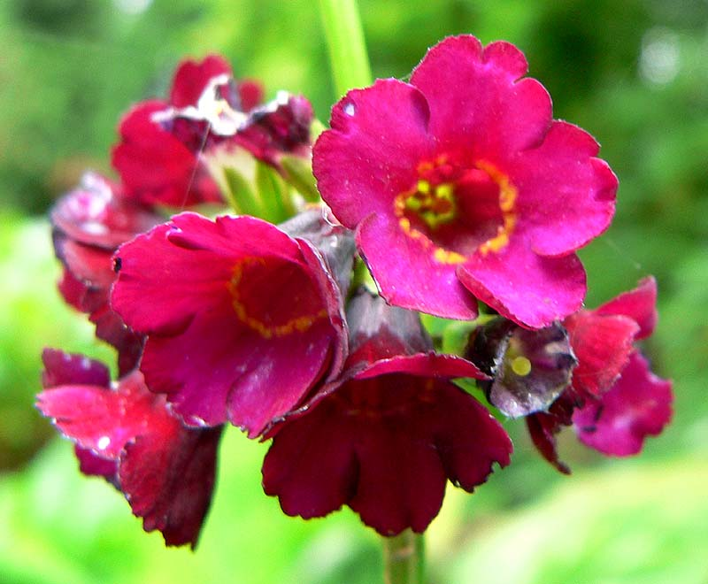 Photo of Primula anisodora at the UBC Botanical Garden in Vancouver